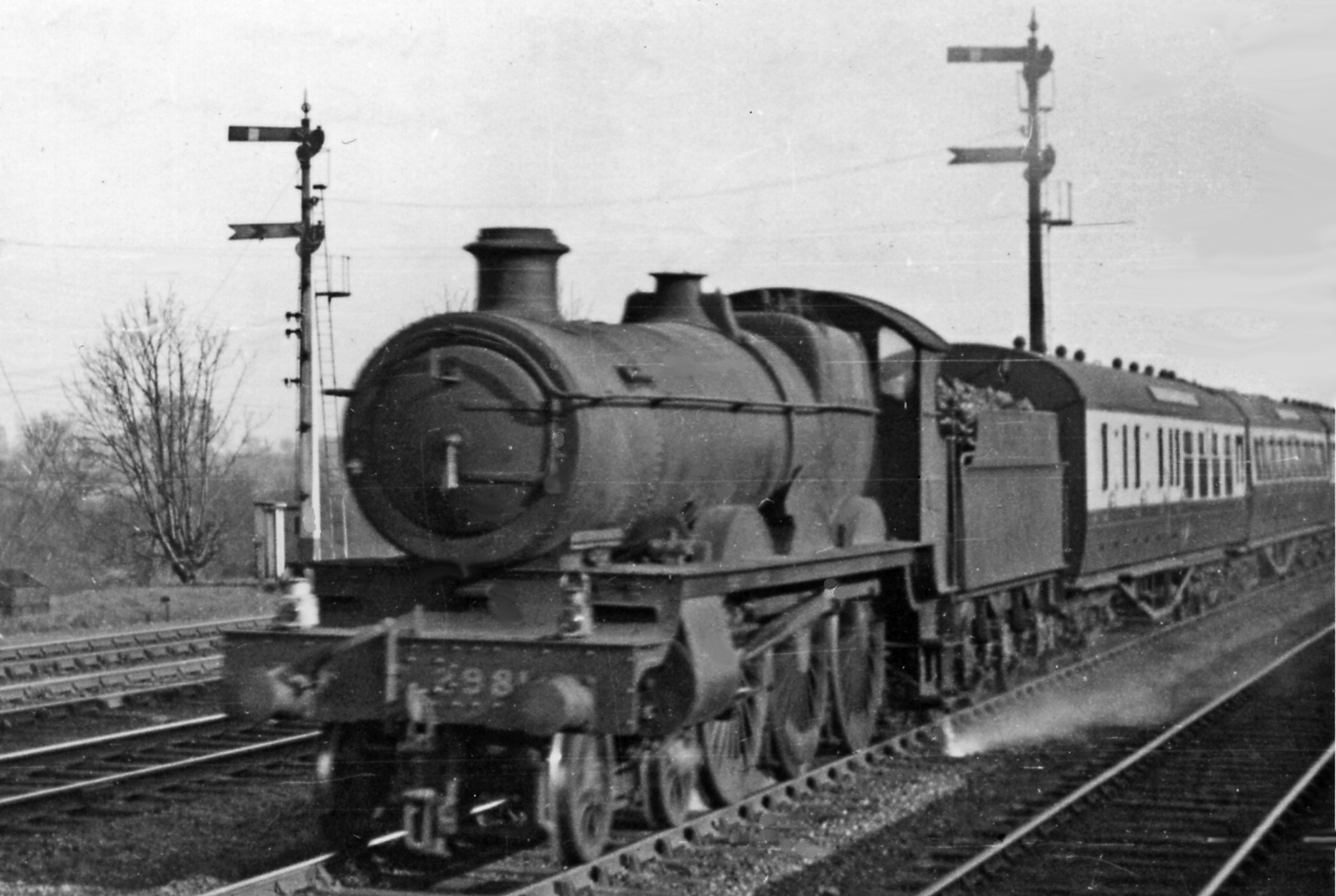 Churchward 'Saint' 4-6-0 on Down Cheltenham express near Tilehurst. View eastward, towards Reading and London: ex-GWR Paddington - Reading - Swindon - Bristol etc. main line. Back in 1948, the 14.15 Paddington - Cheltenham Spa express could still be entrusted to a locomotive over 40 years old, 'Saint' 4-6-0 No. 2981 'Ivanhoe' (built 6/1905, withdrawn 3/51).